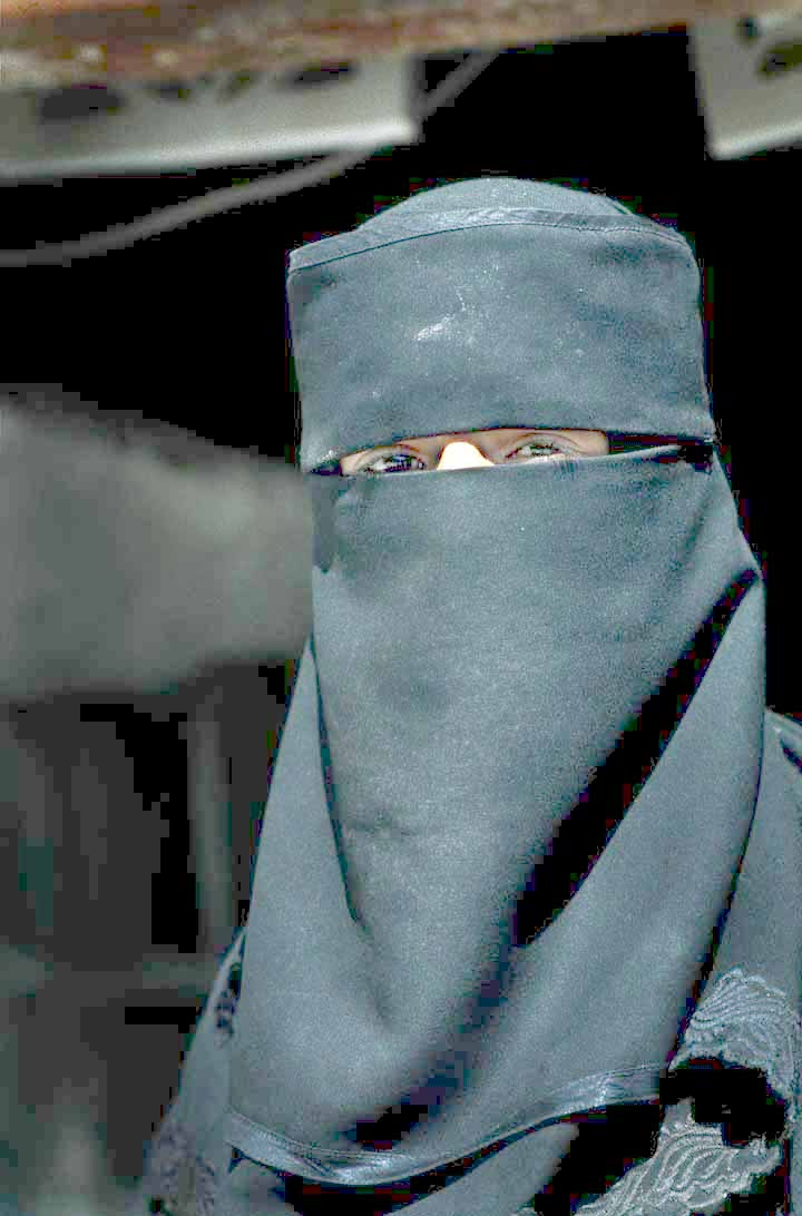 Muslim woman in Yemen.